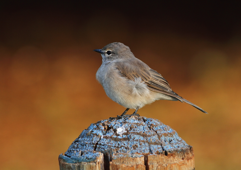 Melaenornis pallidus (Muscicapidae) (Pale Flycatcher) - (adult), KwaZulu-Natal, South Africa